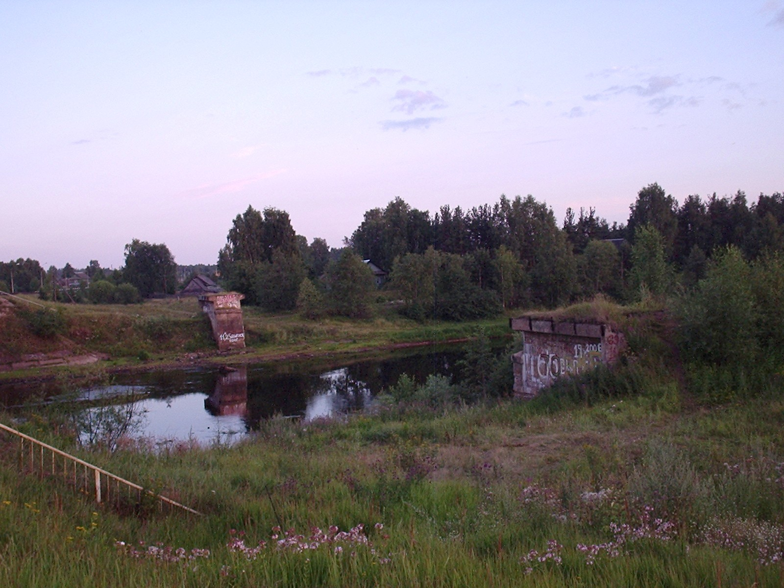 Chagoda, Chagoschensky District, Vologda Oblast; Chagodoscha river